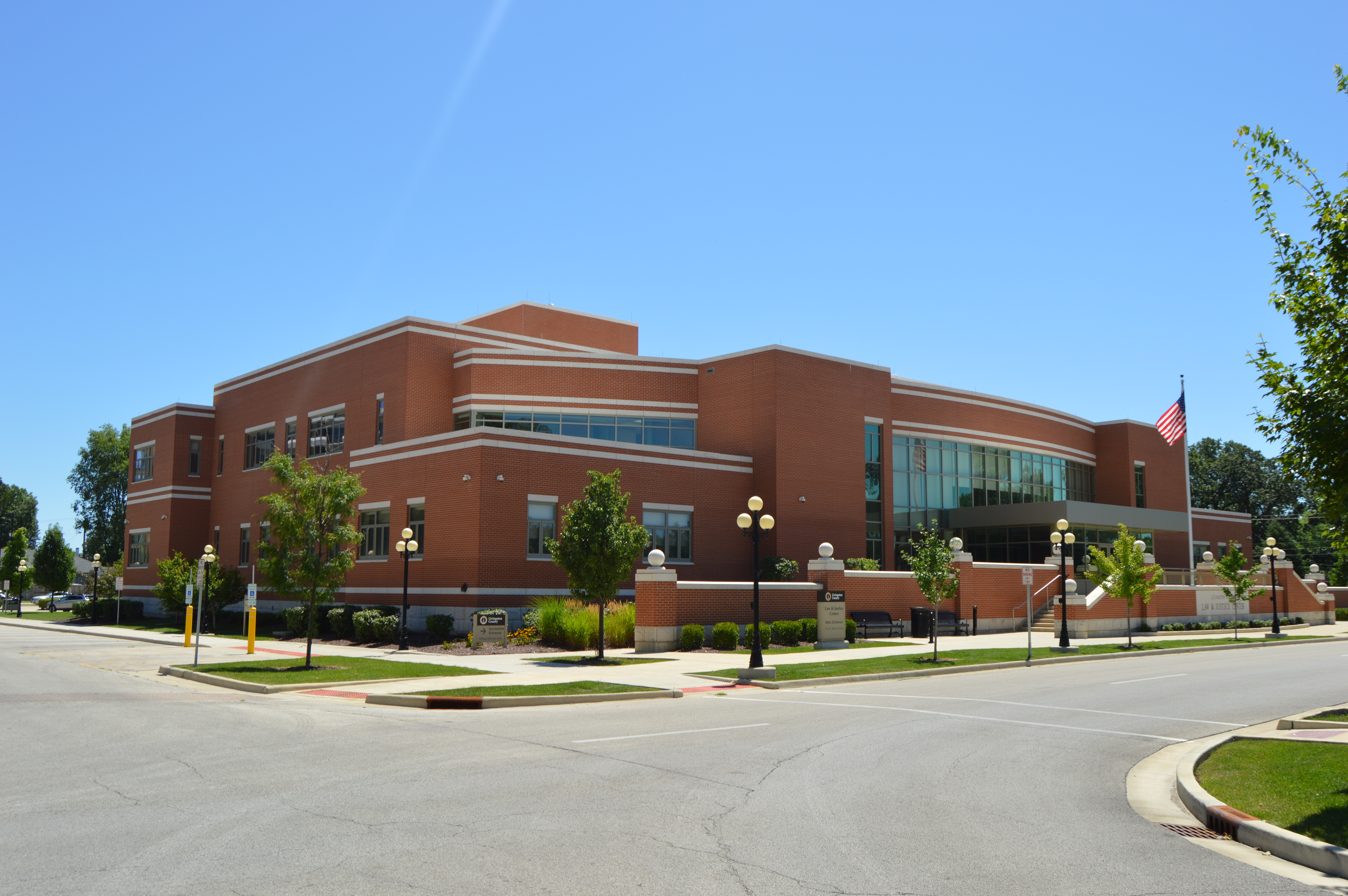 Front of the Livingston County Law and Justice Center, located at 110 N. Main Street in Pontiac, Illinois, United States. It was built in 2011.